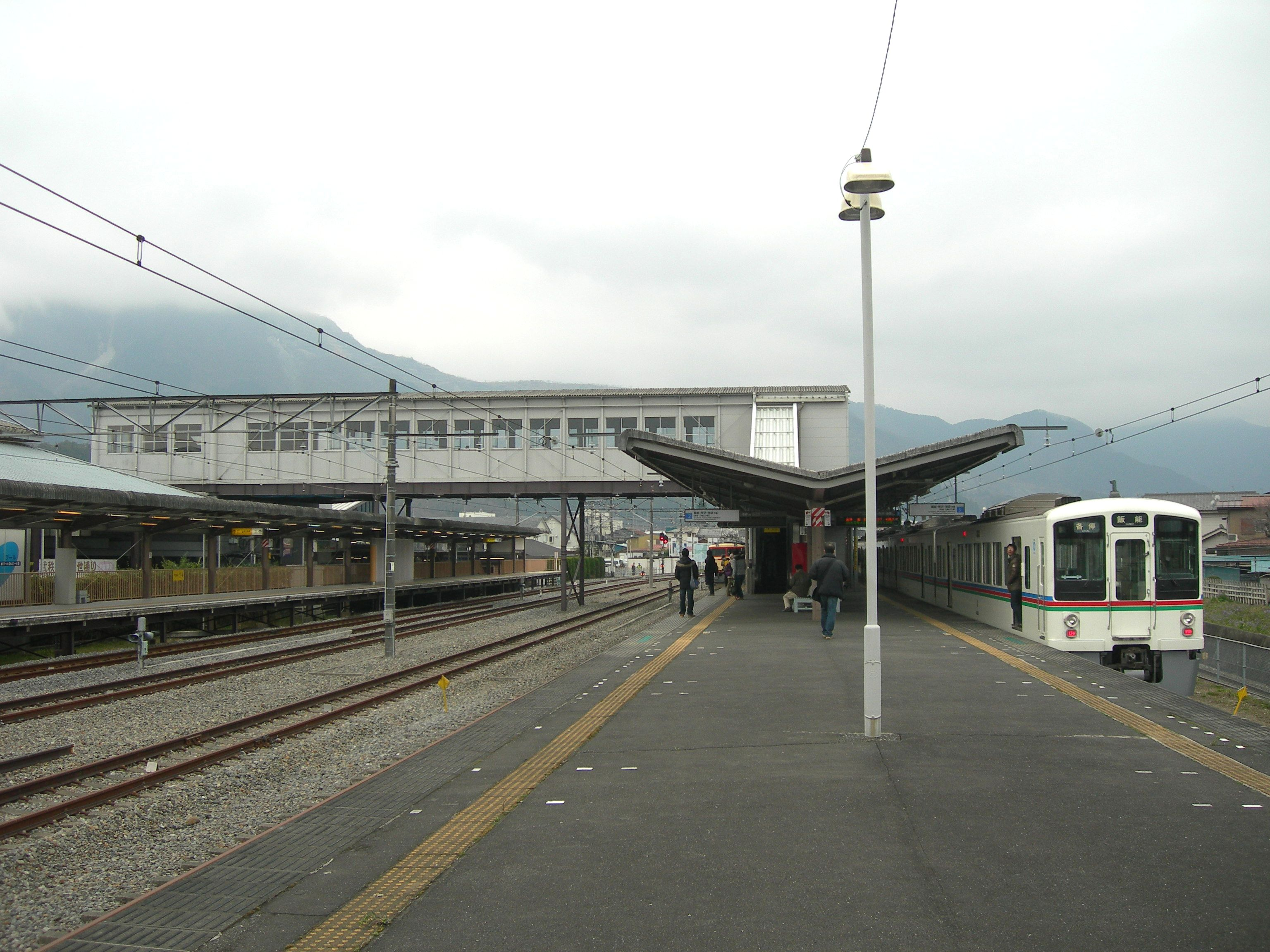 Platform 2/3 of Seibu Chichibu Station on the Seibu Chichibu Line